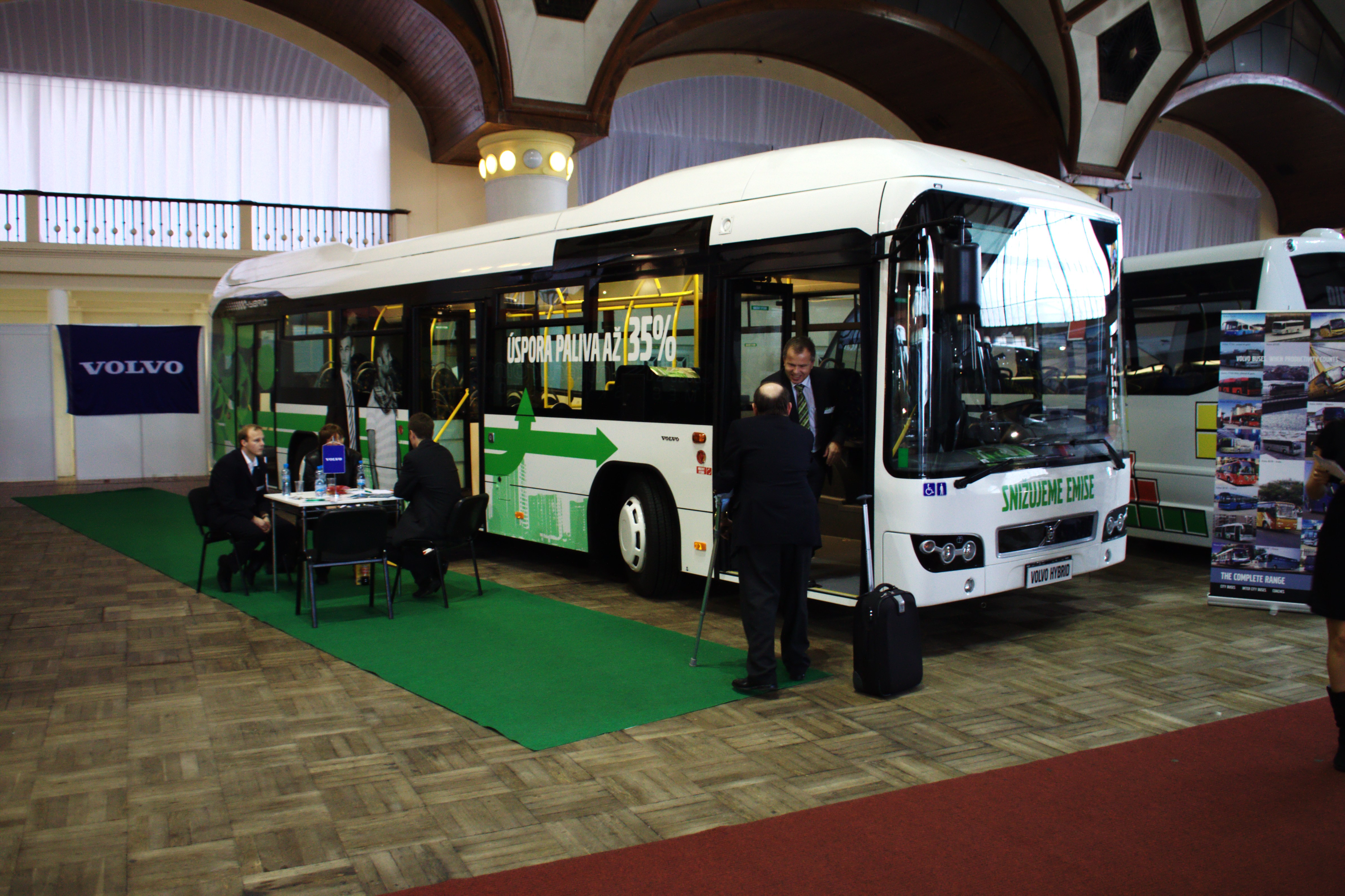 Hybrid Volvo 7700H bus at the Czech Bus fair in Prague-Holešovice, CZ